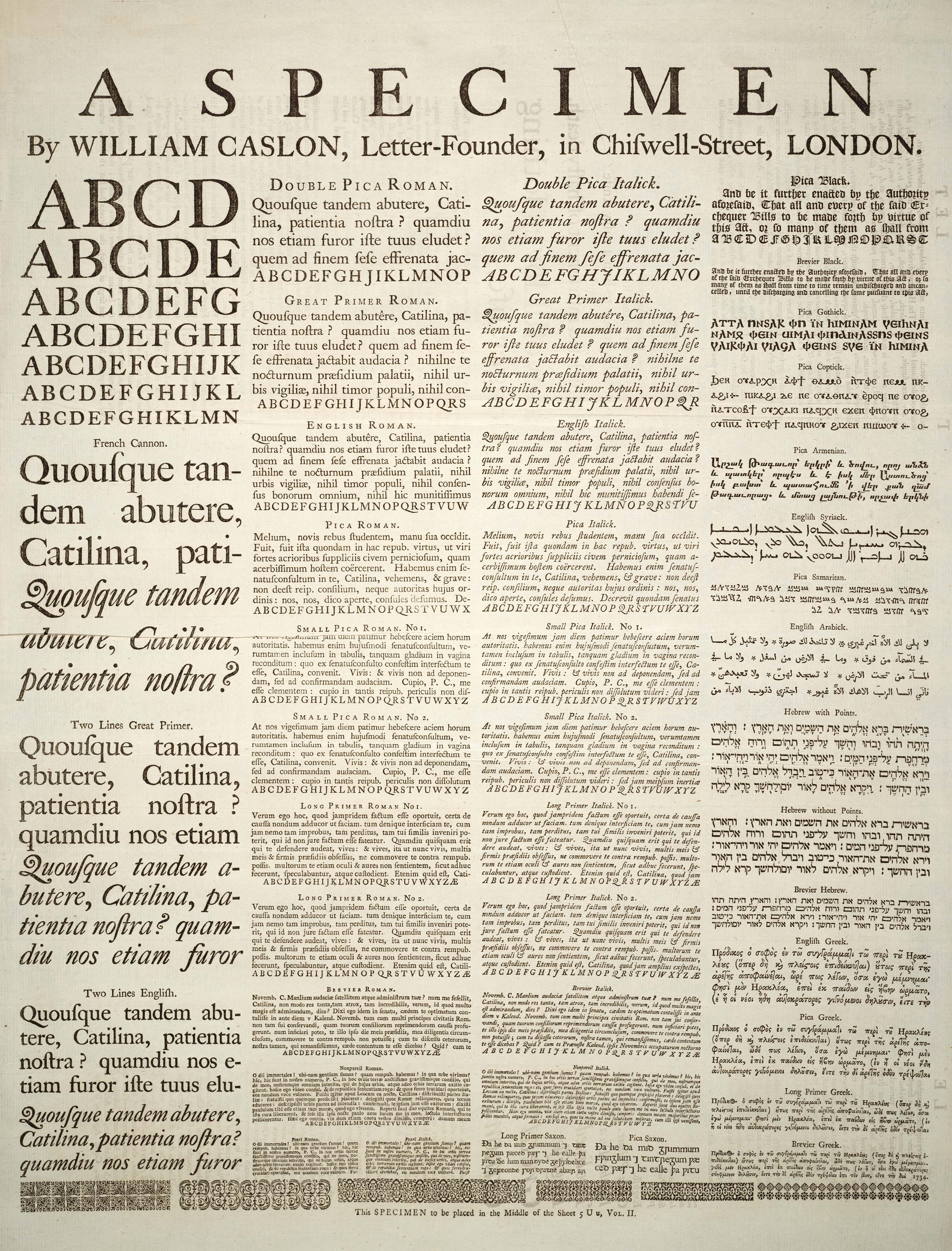 A specimen sheet of typefaces and languages, by William Caslon I, letter founder; dated 1734.